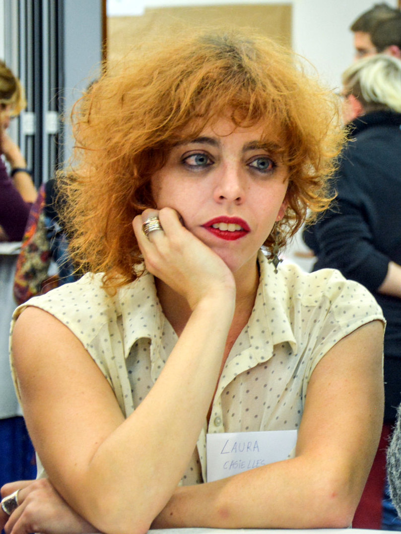 Laura Casielles from Instituto 25 M for Democrazy, Spain and Dorit Riethmüller from RLS Berlin during the World Café